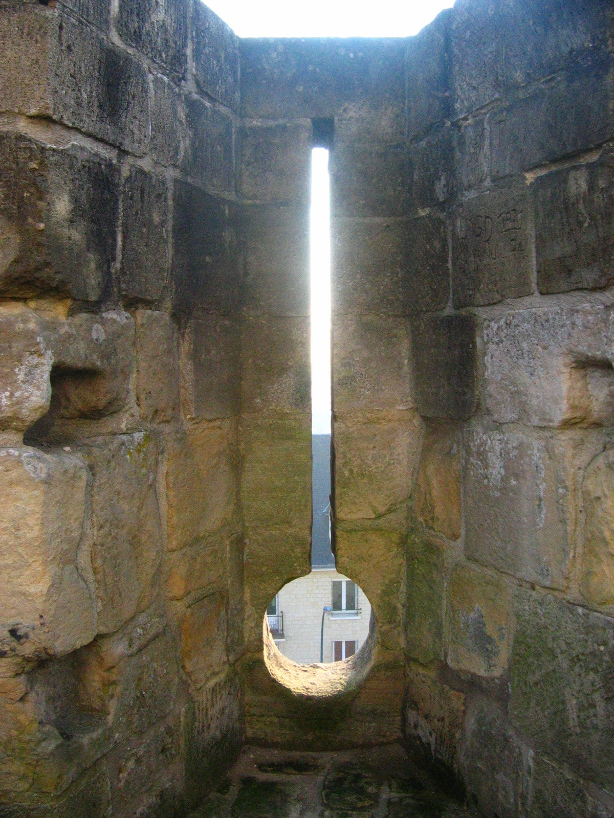 Castle of Caen, arrow slit (meurtrière).